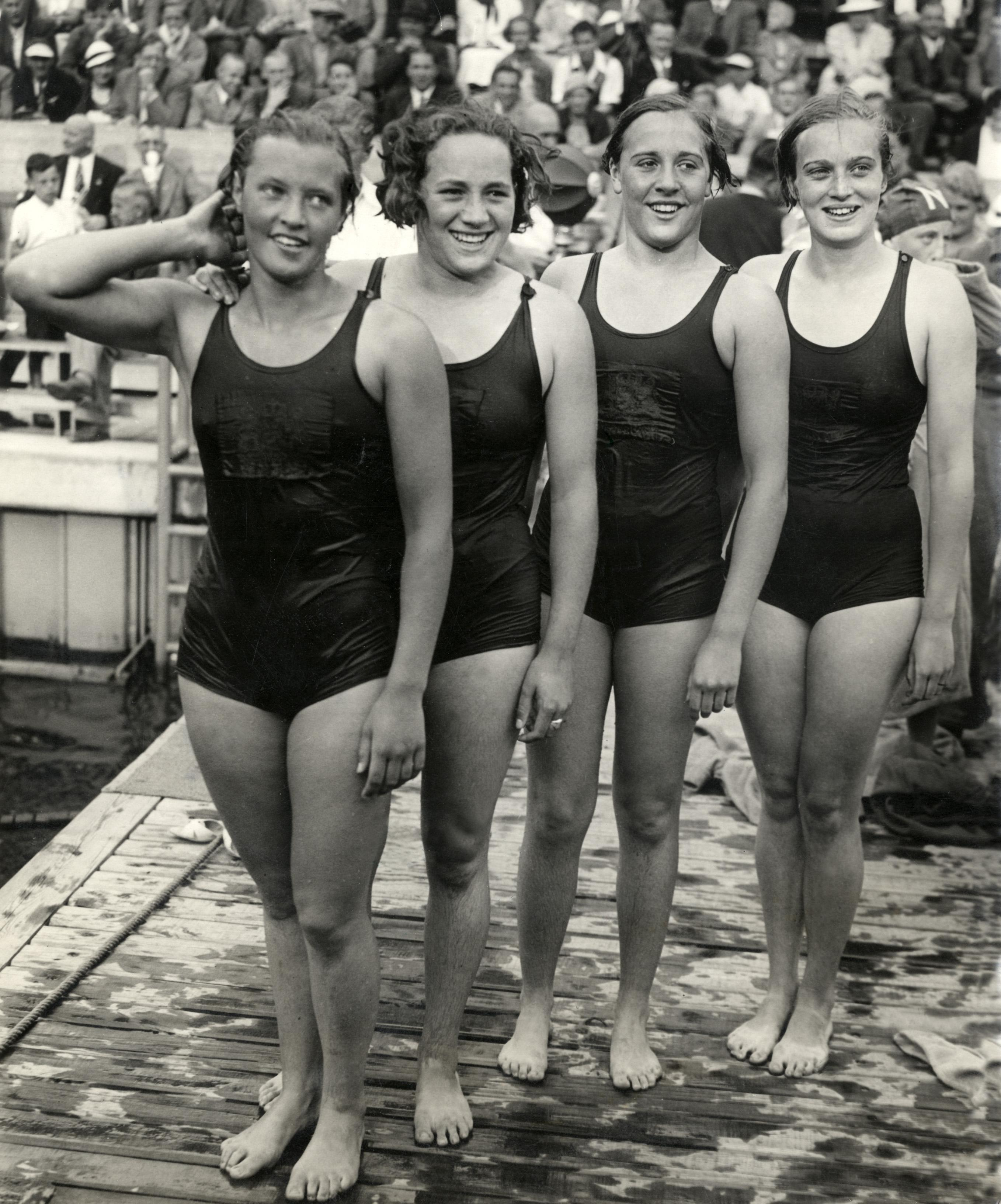 The Dutch 4x100m relay team at the European Championships 1934: Willy den Ouden, Rie Mastenbroek, Annie Timmermans, Jopie Selbach